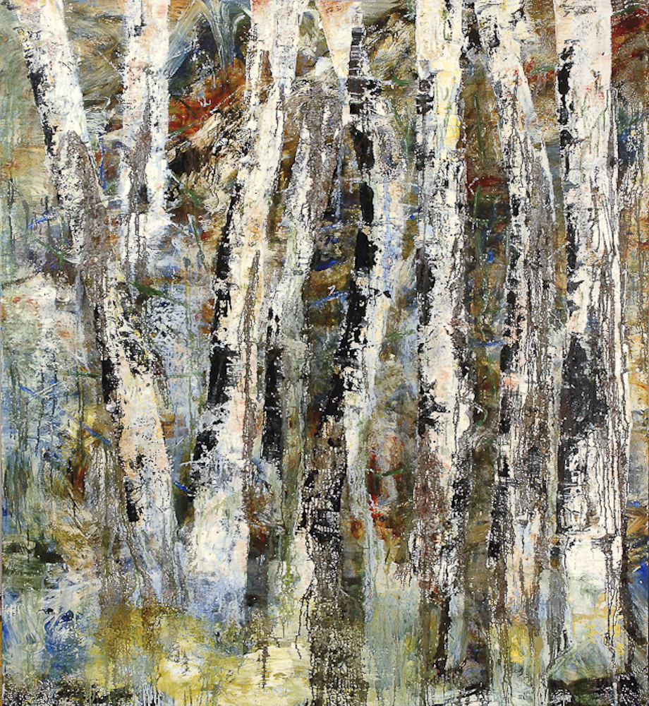 Painting by Adam Shaw